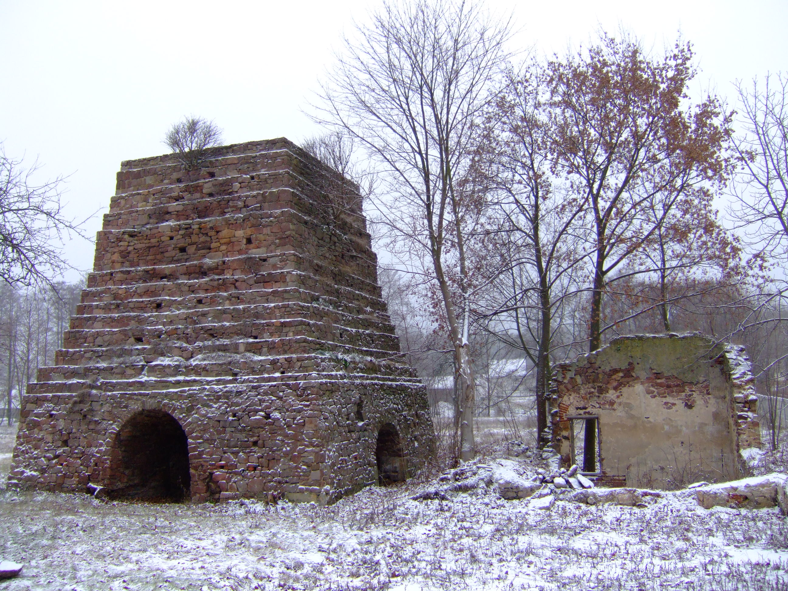 Historic blast furnace, Kuźniaki, Poland Aparat/Camera: Fuji FinePix E900